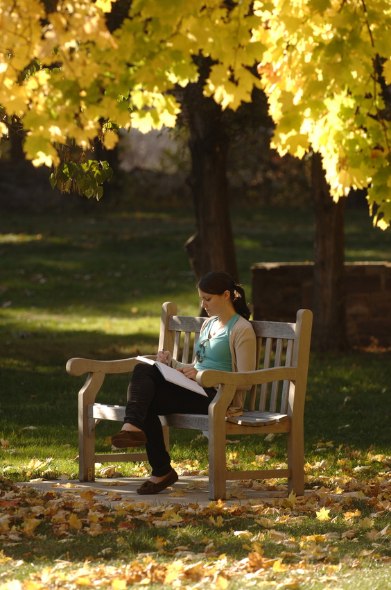 Fall foliage, Nazareth College